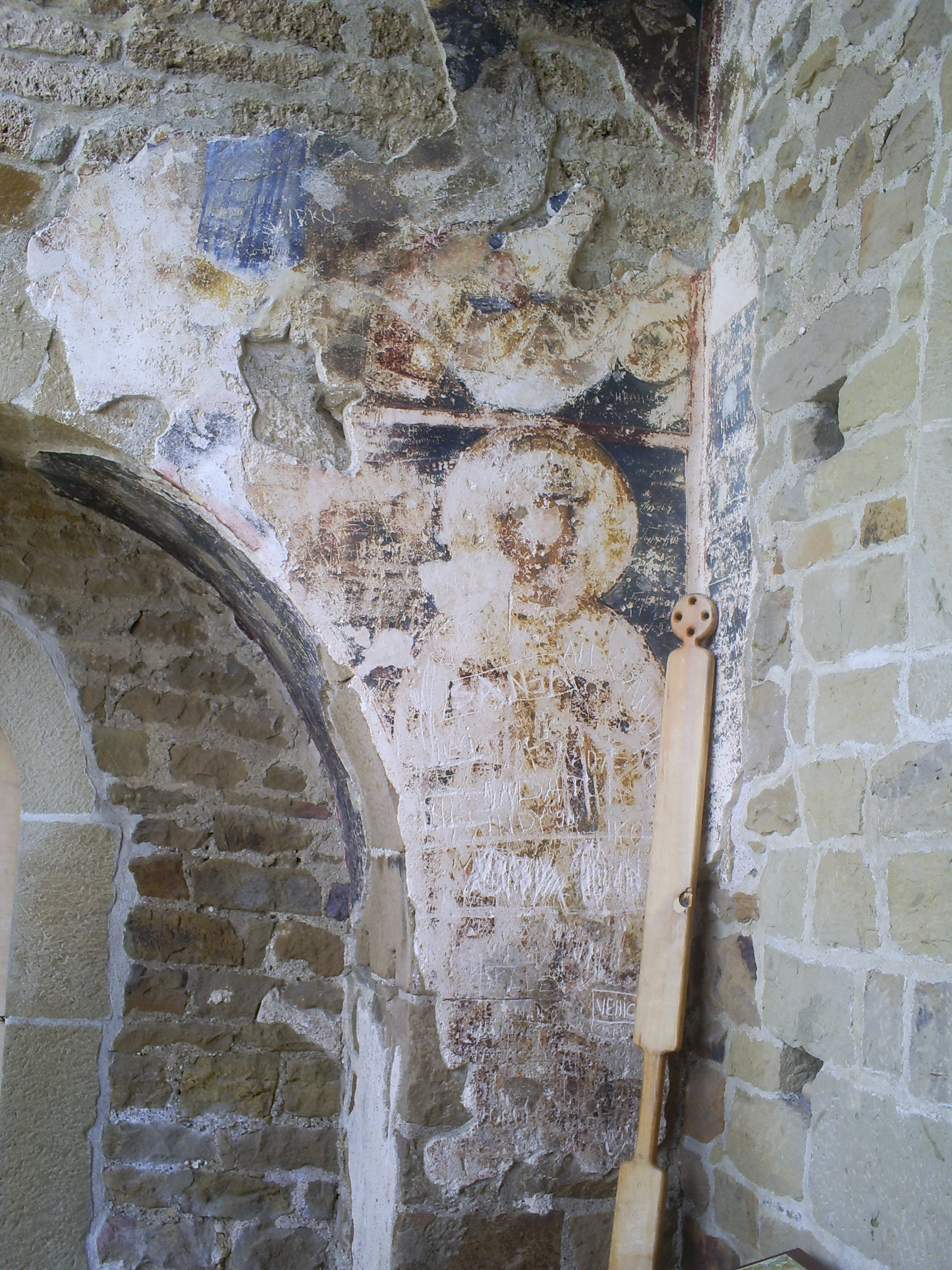 Fresco from Djurdjevi monastery, in the corner stands a semantron, used to call the monks to prayer.